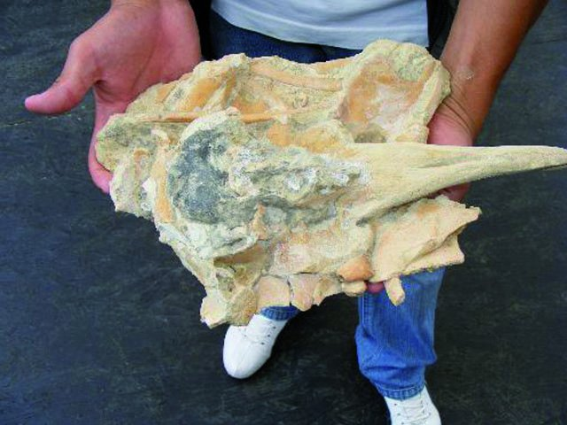 Kentriodon brain of Ica